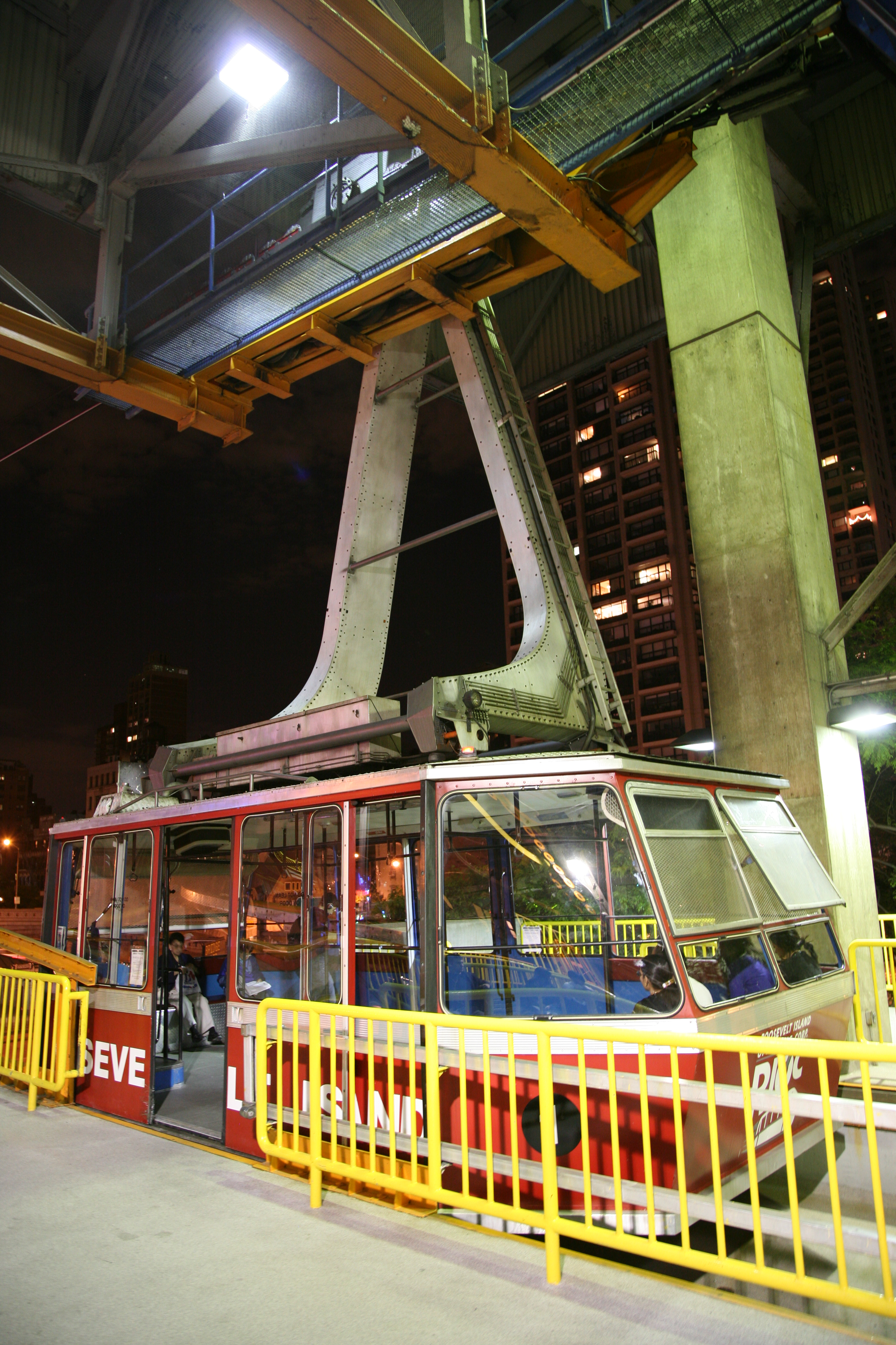 Roosevelt Island Aerial Tram, New York City, USA.